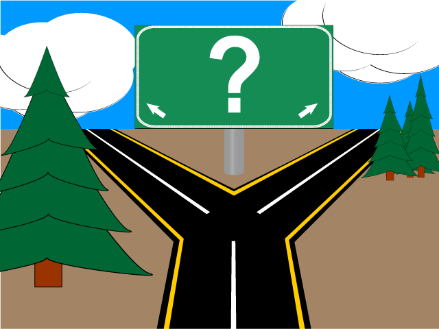 Electronically aided drawing of paved road splitting in two directions.